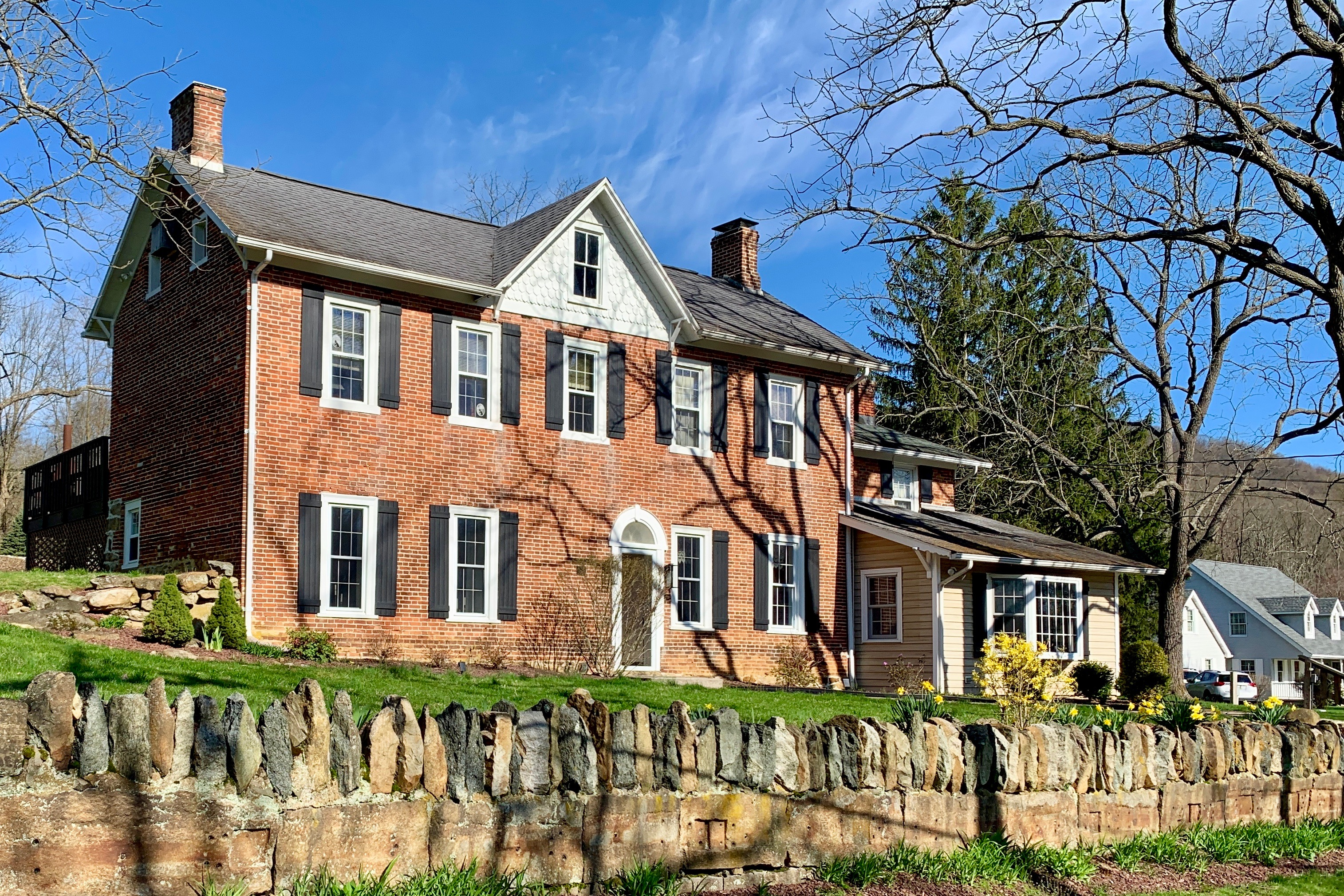 Historic brick house in Bowerstown, New Jersey. Contributing property #17 in the Bowerstown Historic District. Federal influences, Victorian embellishment.